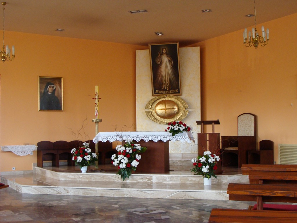 Śrem, Church of the Holy Heart of Jesus, high altar in the Chapel of Perpetual Adoration.